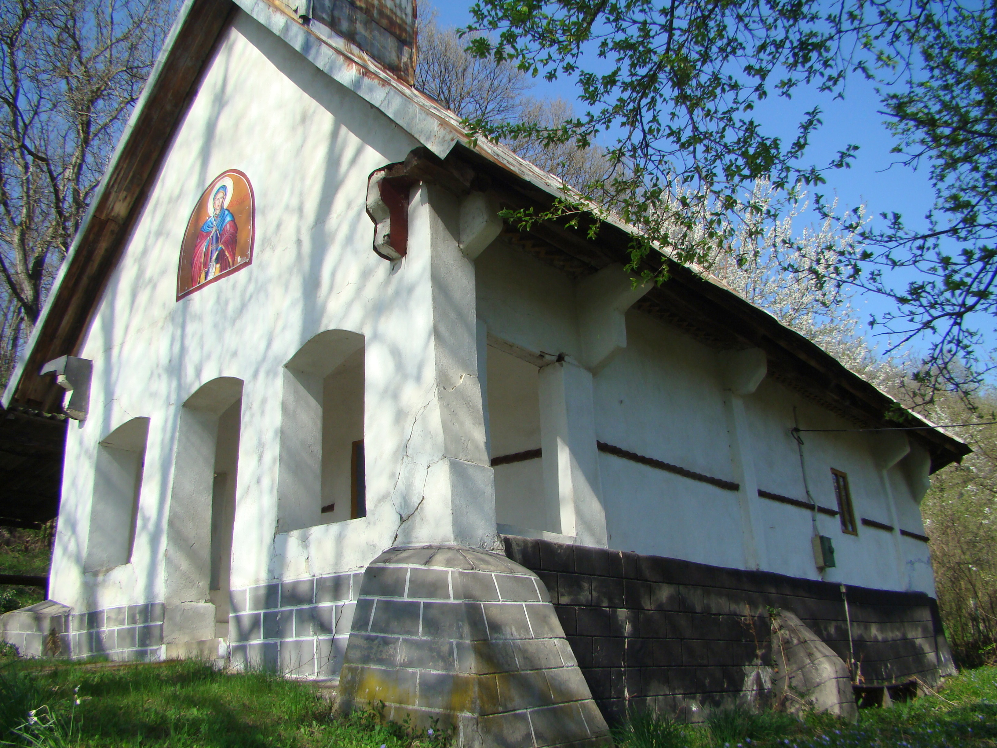 Wooden church in Duțești, Gorj county, Romania